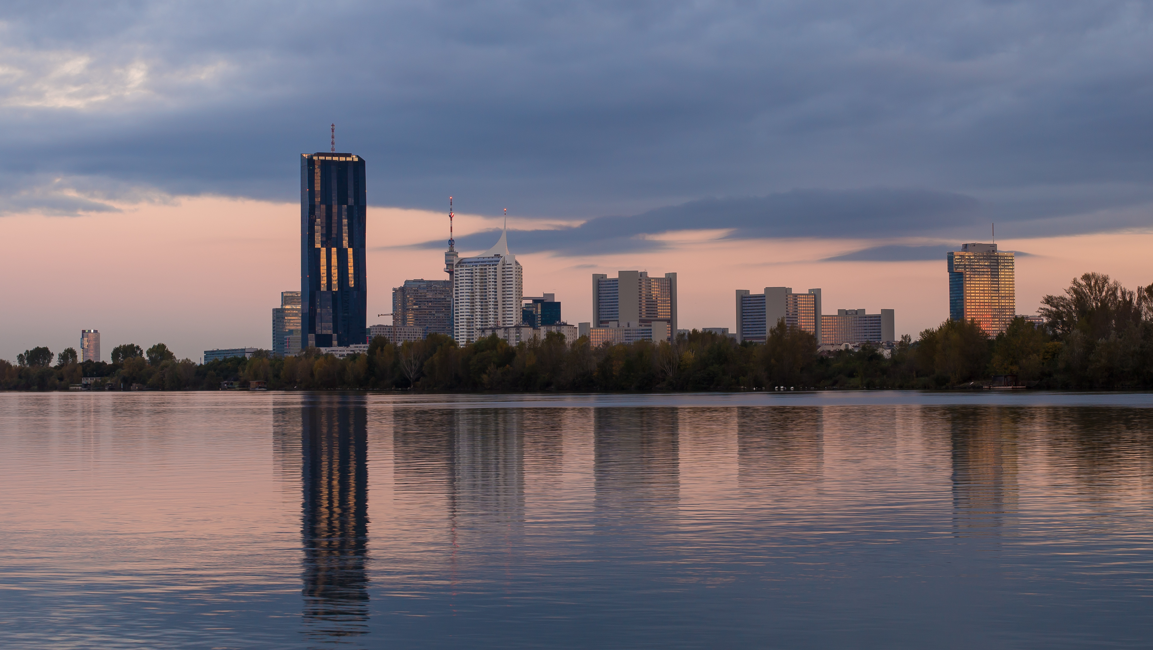 Donaucity Vienna, seen from Donaumarina